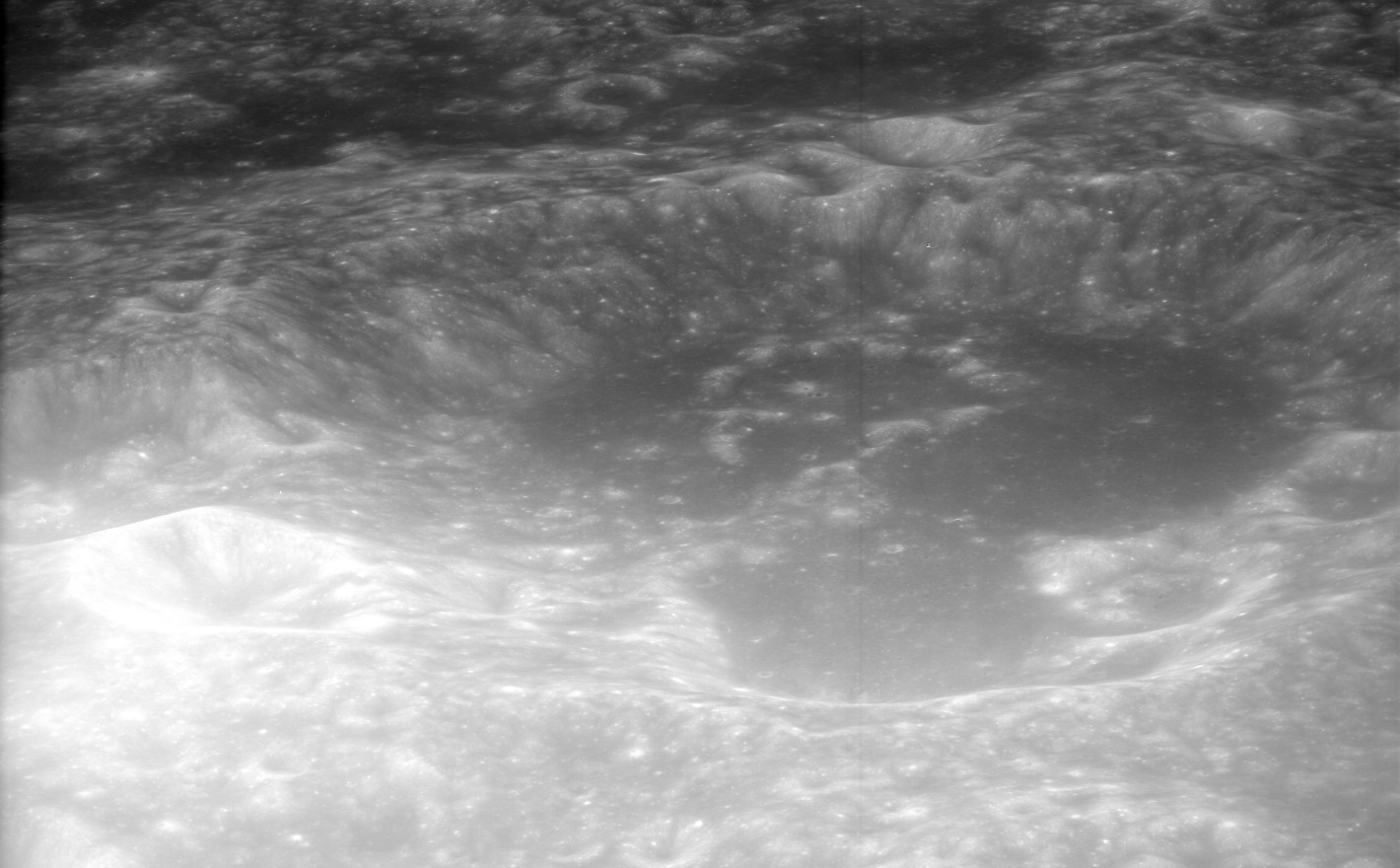 Oblique view facing south of Apollonius crater, on the moon.